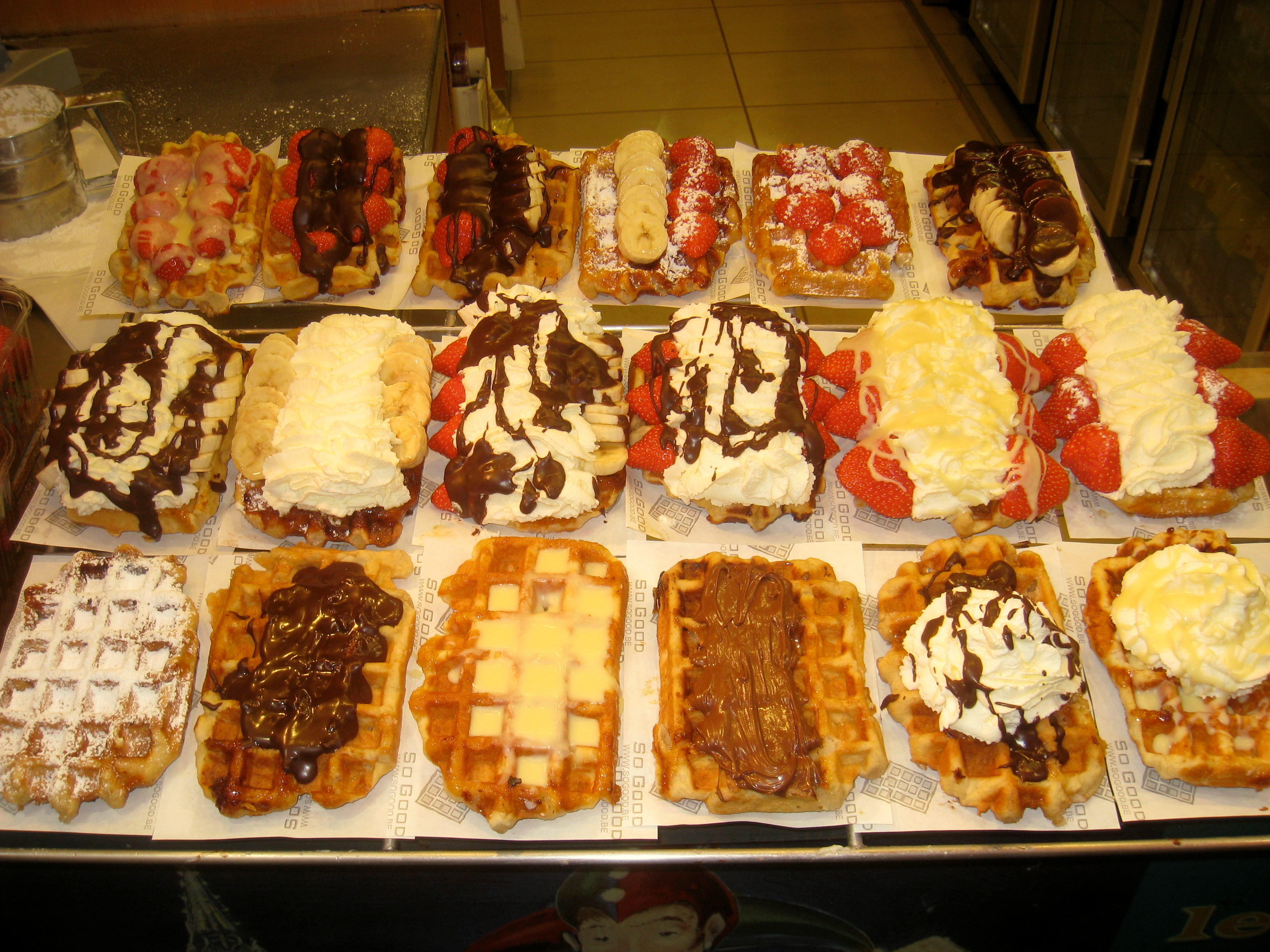 Cuisine of Belgium.